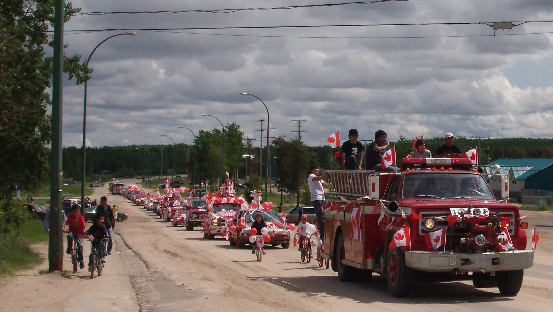 La Loche Canada Day parade 2009